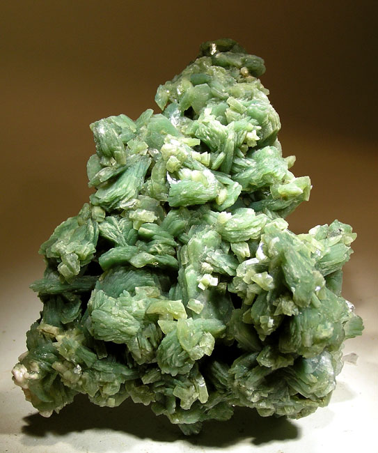 Stilbite Locality: Jalgaon District, Maharashtra, India (Locality at ) A large, dramatic lacework of exotic GREEN stilbite bowties, intricately intergrown to form this eye-stopping, sculptural specimen! Can be displayed from either side - it is a giant floater cluster and there is no matrix. Just look at this amazing thing! 13 x 10.3 x 8.4 cm